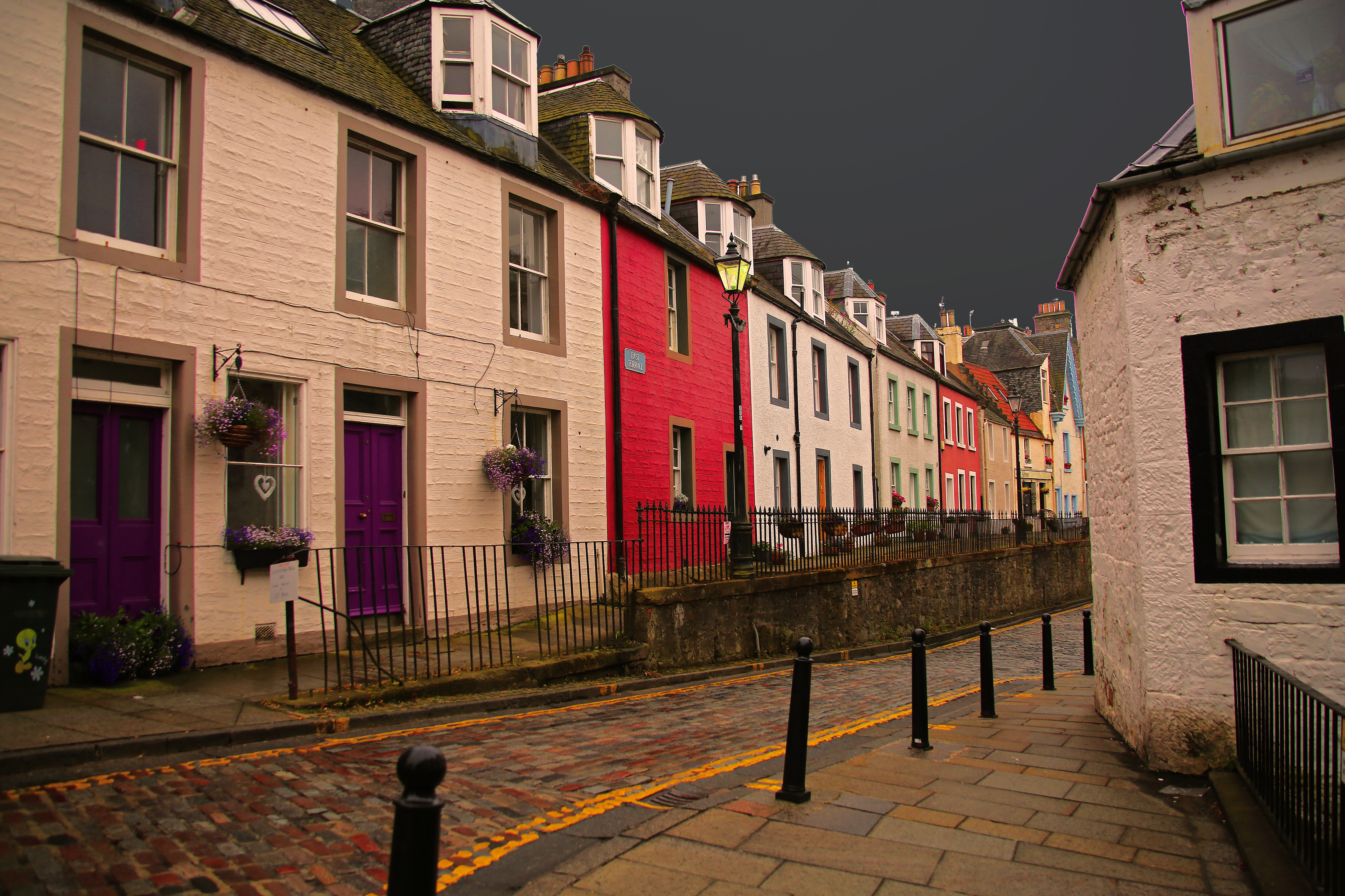 A street in South Queensferry, West Lothian, Scotland, at midnight in July